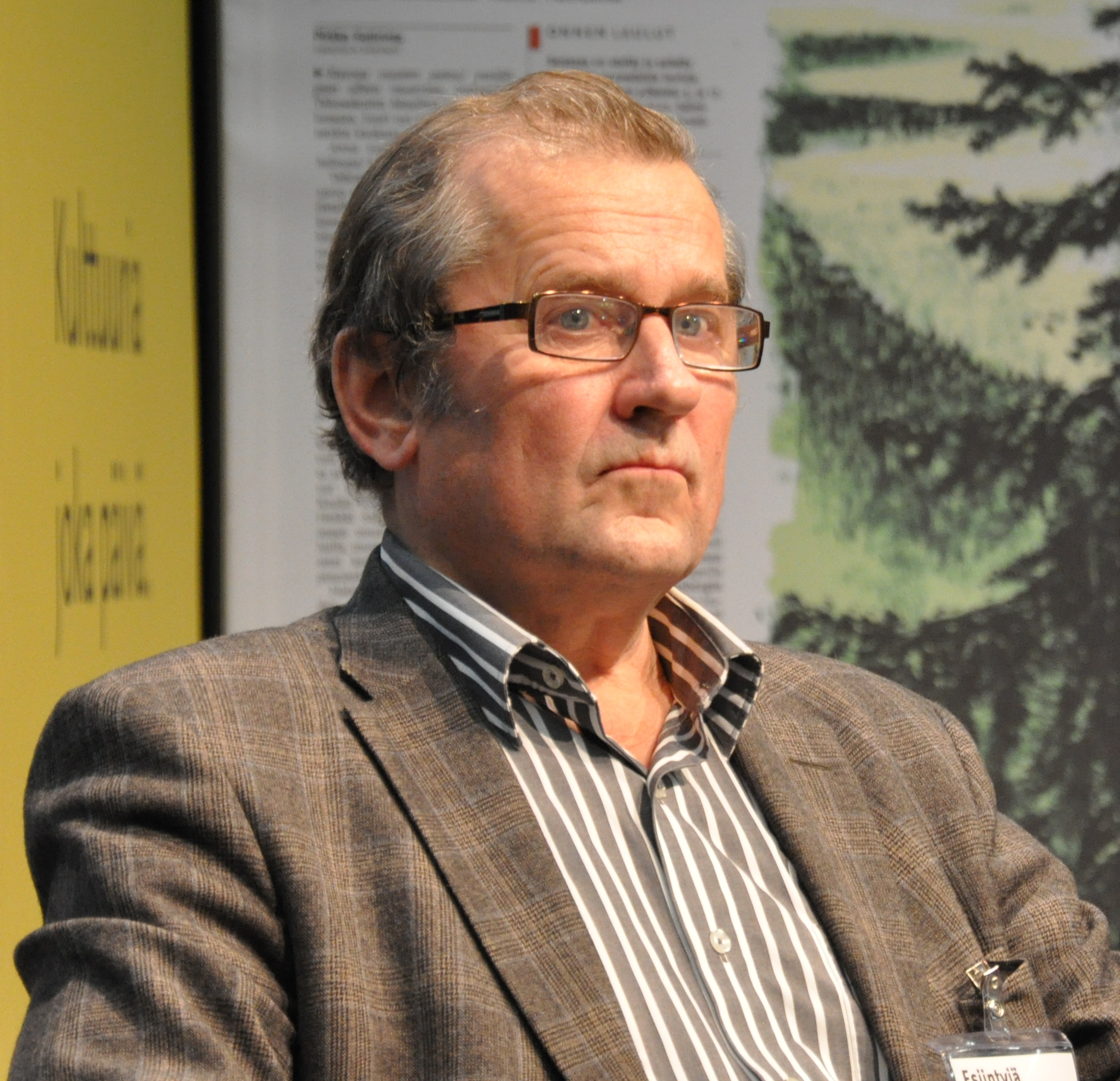 Finnish writer and researcher Panu Rajala at the Helsinki Book Fair 2009.